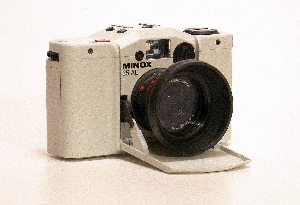 Minox 35mm